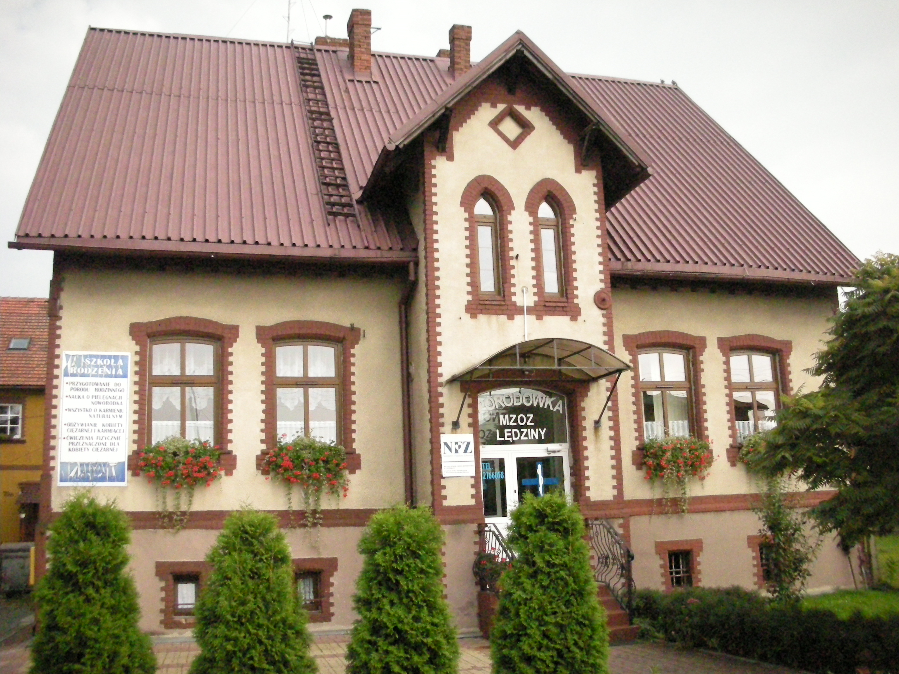 porodowka w ledzinach (poland)